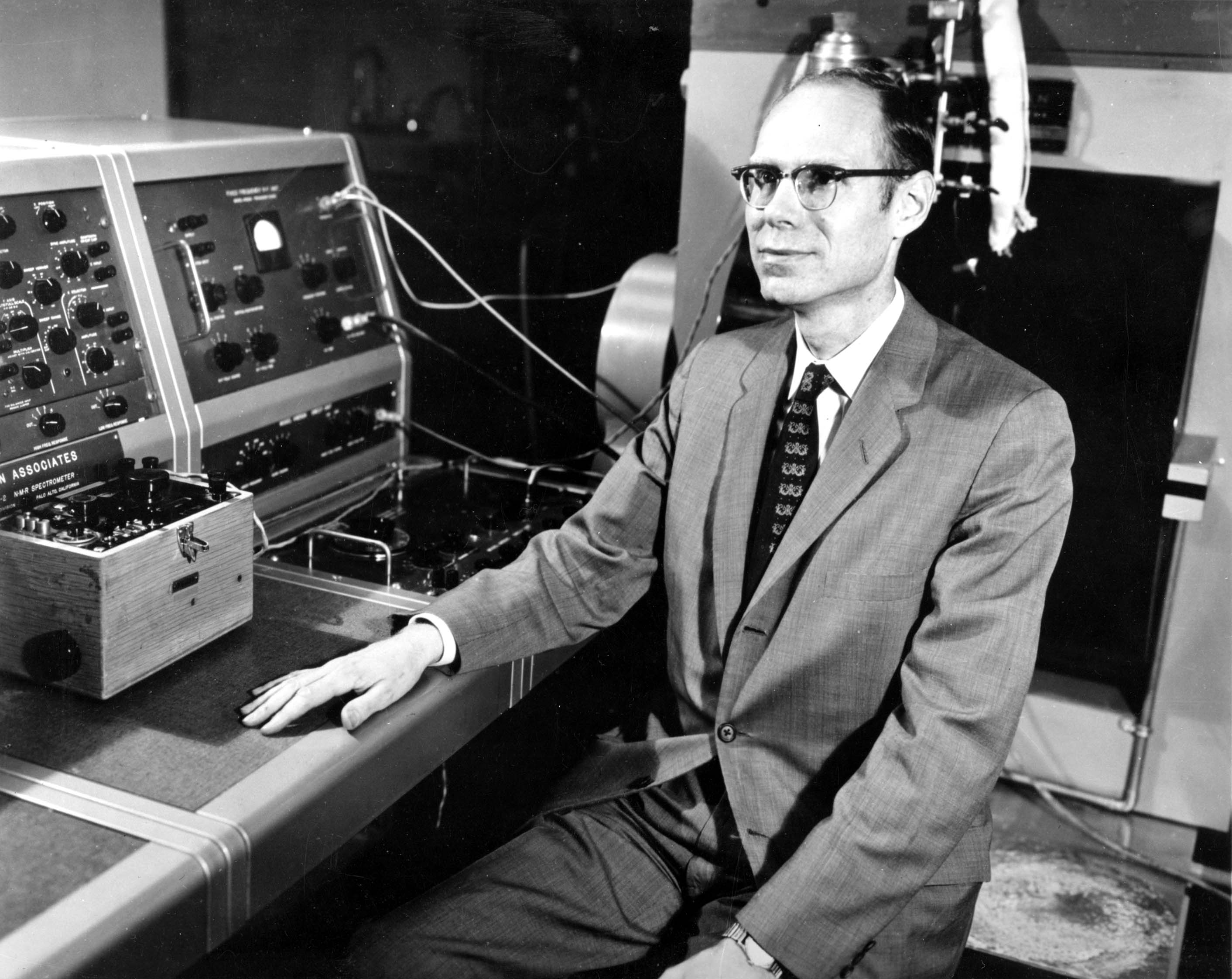 John Robinson Pierce, the former director of research at AT&T Bell Telephone Laboratories. Born in Des Moines, Iowa in 1910, Pierce was the first to evaluate the various technical options in satellite communications and assess the financial prospects. In 1952, he published an article in Astounding Science Fiction in which he discussed the potential benefits of satellite communications. Coined the term "transistor", instrumental in the development of Telstar 1, and wrote science fiction under the nom de plume J.J. Coupling. A few years later, Pierce greatly assisted in the creation of the first artificial communication satellite, ECHO. Pierce died from pneumonia complications on April 2, 2002 at the age of 92.